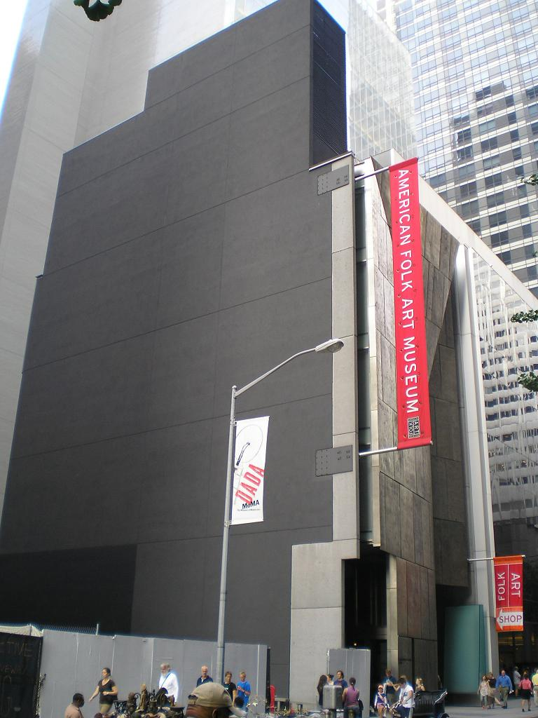 Facade with Copper panels of the former Midtown building of the American Folk Art Museum — view east on West 53rd Street, Midtown Manhattan, New York City. Designed by Tod Williams & Billie Tsien, built in 2001, closed in 2011. Demolished by MOMA for expansion in 2015. The American Folk Art Museum is now at 2 Lincoln Center, Upper West Side, New York City. Credits The author of this image is me, David Shankbone. Looking east at American Folk Art Museum, West 53rd Street, New York City. Taken 7 August 2006.